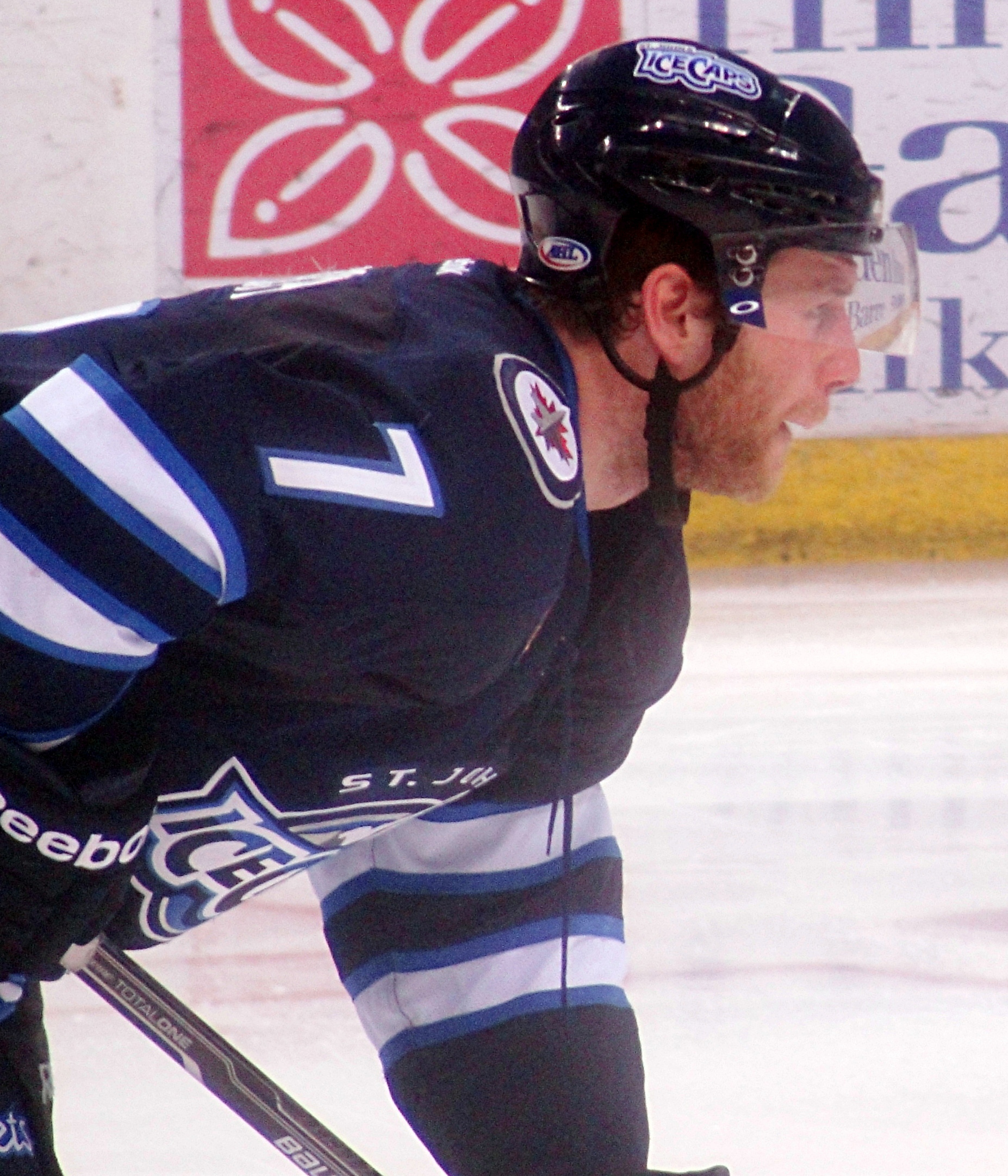 St. John's IceCaps defenseman Derek Meech during a second round AHL playoff game against the Wilkes-Barre/Scranton Penguins, May 5, 2012 at Mohegan Sun Arena at Casey Plaza in Wilkes-Barre, PA.